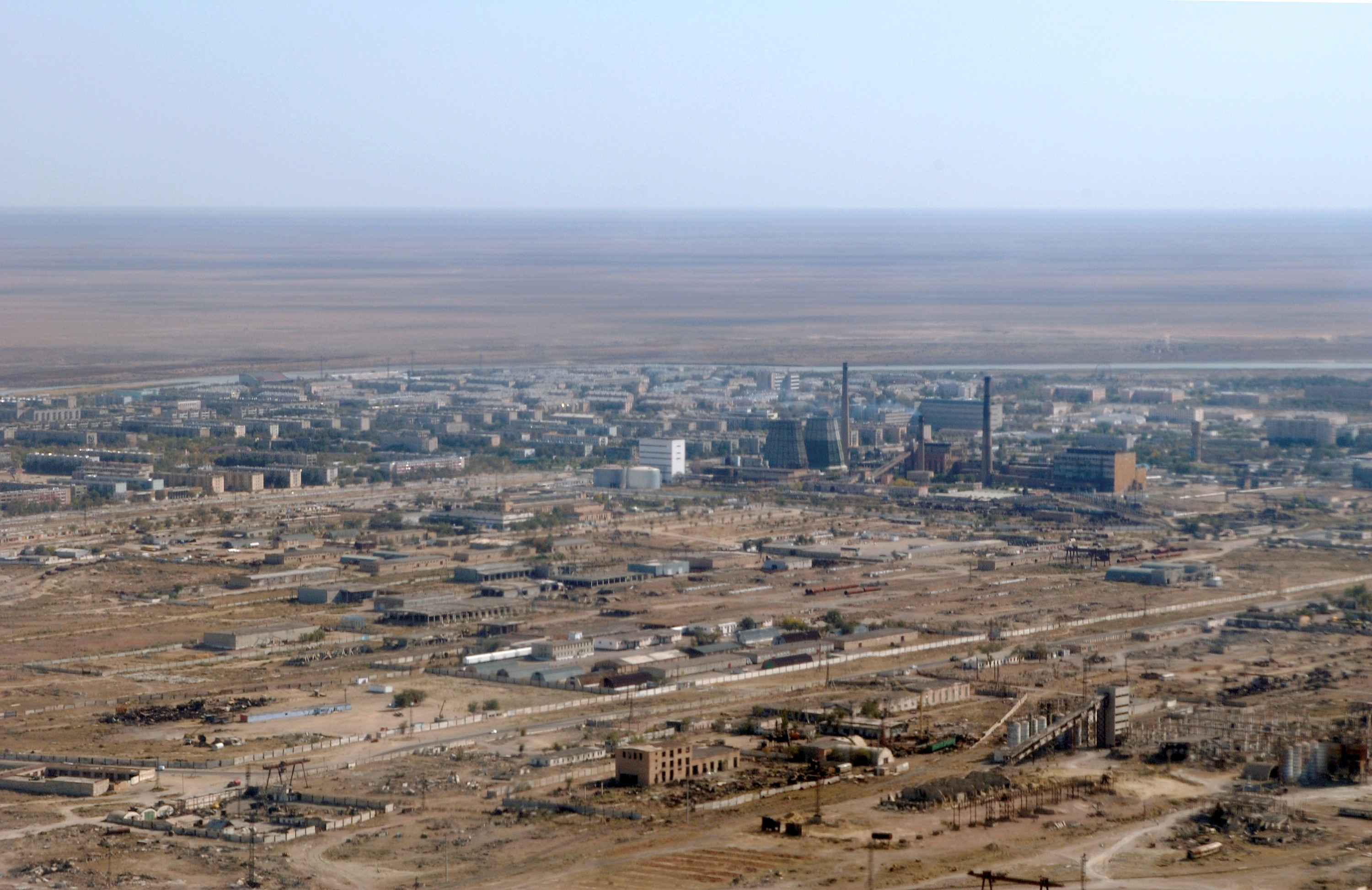 The city of Baikonur, Kazakhstan, is seen from the aircraft carrying astronaut Leroy Chiao, Expedition 10 commander and NASA International Space Station (ISS) science officer, cosmonaut Salizhan Sharipov, Russia’s Federal Space Agency flight engineer and Soyuz commander, and Russian Space Forces cosmonaut Yuri Shargin. The crew will prepare for their launch on the Soyuz TMA-5 spacecraft October 14, 2004, to the ISS.